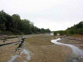 San Mateo Creek Lagoon at San Onofre State Beach, near San Clemente in Southern California, USA